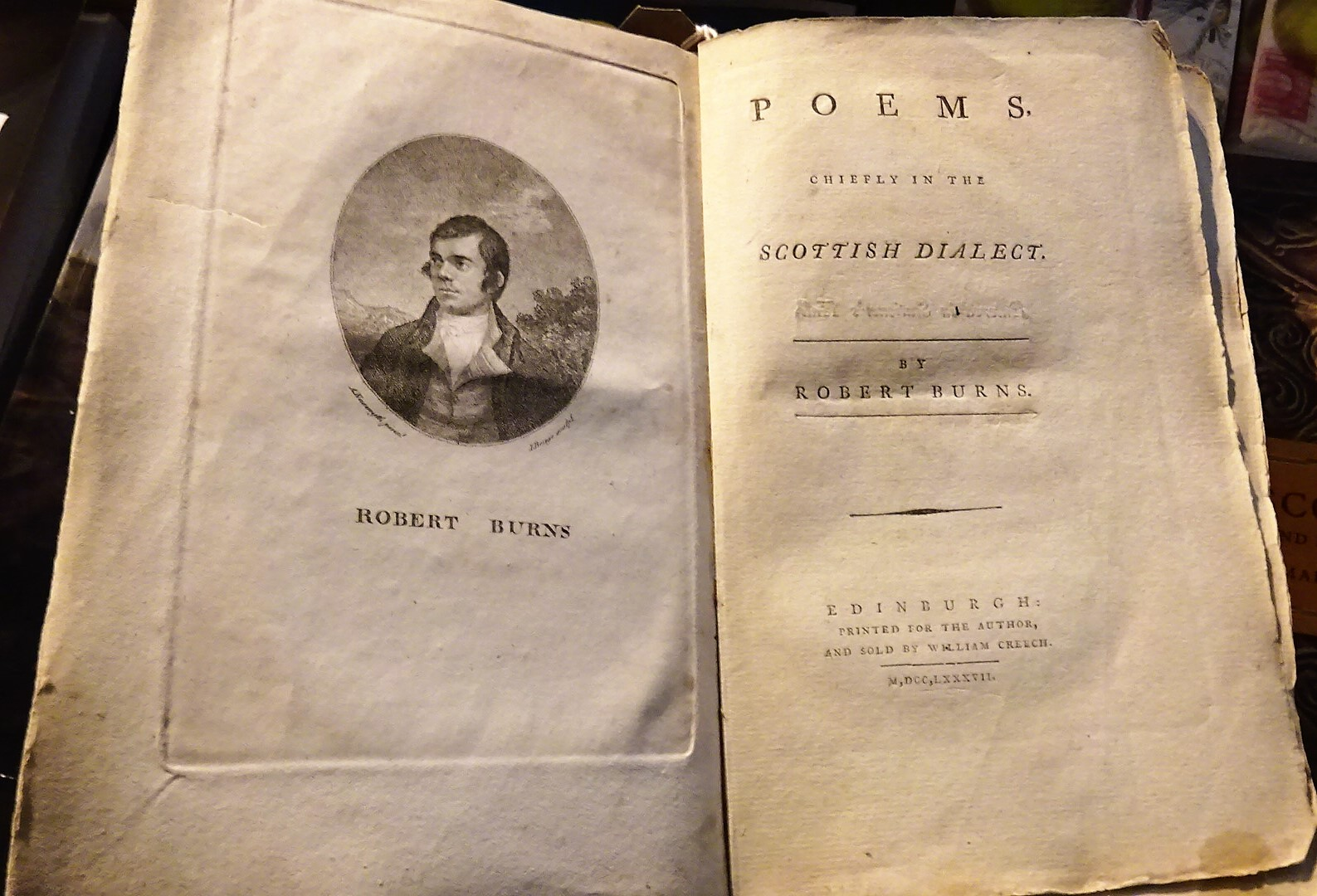 Stinking Edition, 1787 Poems, Chiefly in the Scottish Dialect. Robert Burns. So called because of a printing error where 'Skinking' became 'Stinking'.